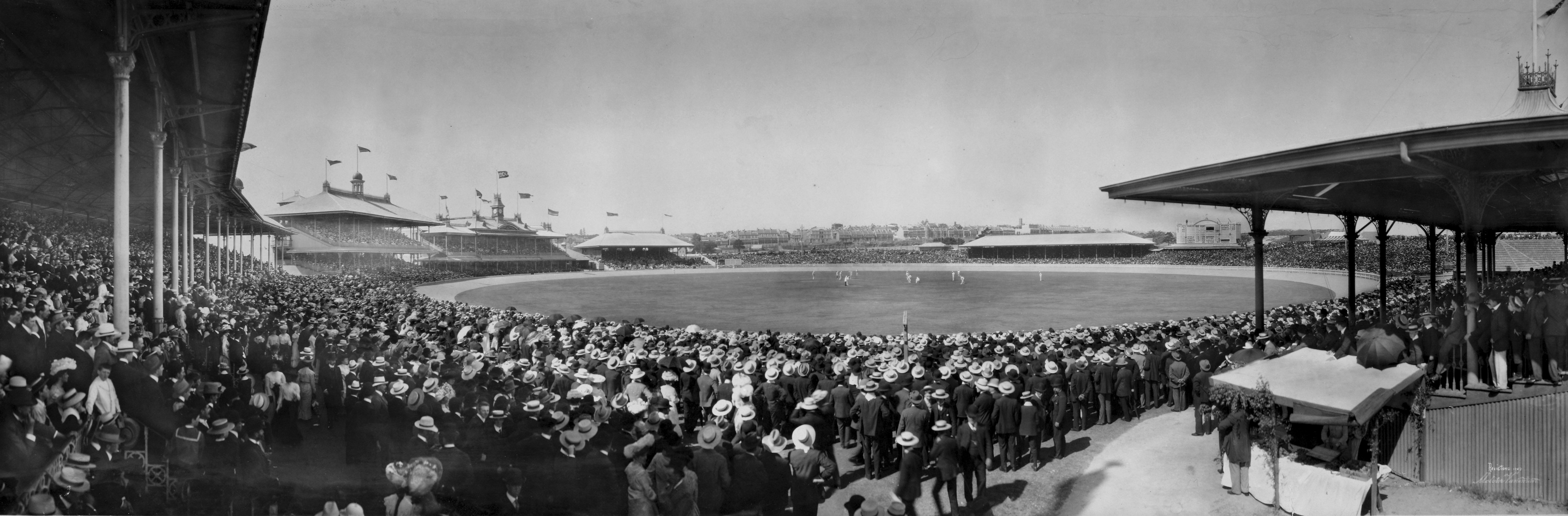 The Sydney Cricket Ground. From the scoreboard, it can be deduced that this is the second day of the First Test, England v Australia. England won by five runs, aided by the extraordinary debut innings of 287 from R. E. Foster. Foster is the only man to have captained England in both football and cricket. Find more information about the Melvin Vaniman collection of photographic panoramas in the State Library of New South Wales' catalogue: .au/item/itemdetailpaged.aspx?itemid=413018 Here